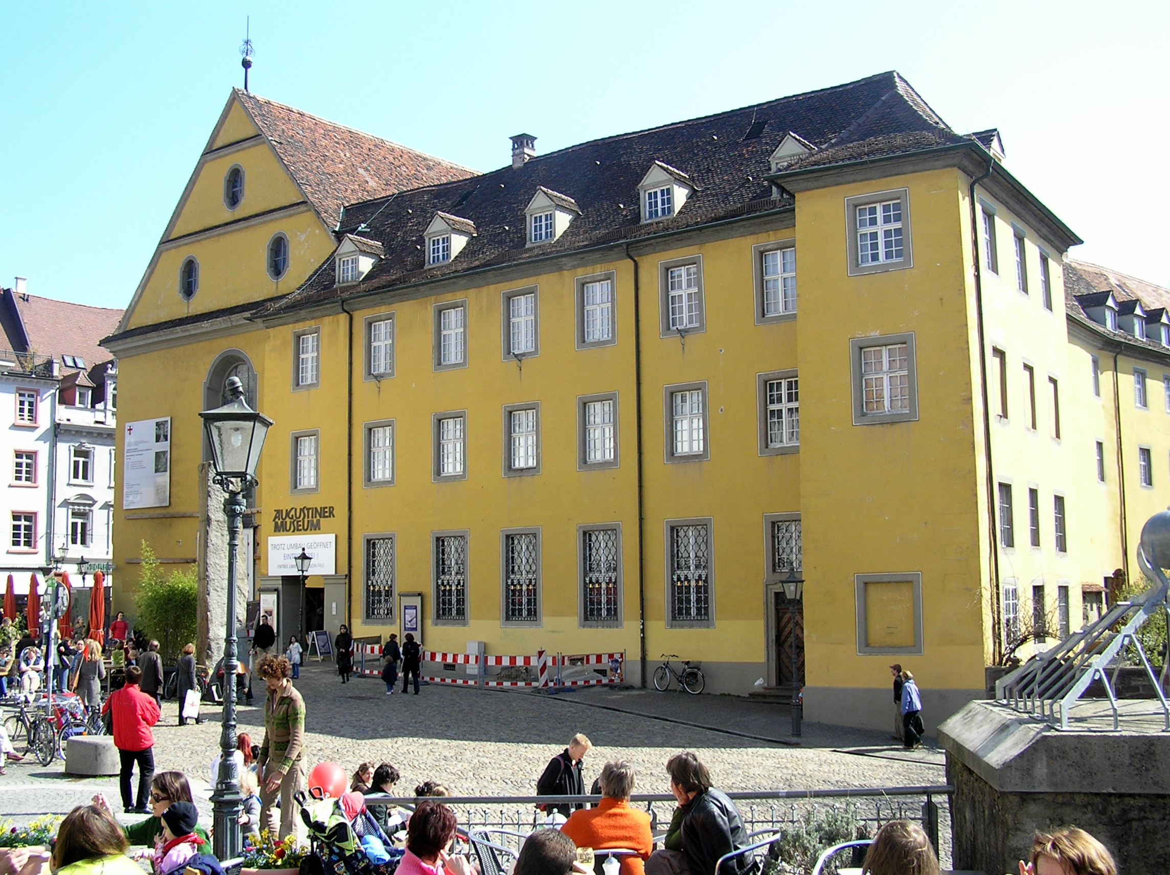 Picture of the Augustinermuseum in Freiburg (Breisgau) Germany (western side)